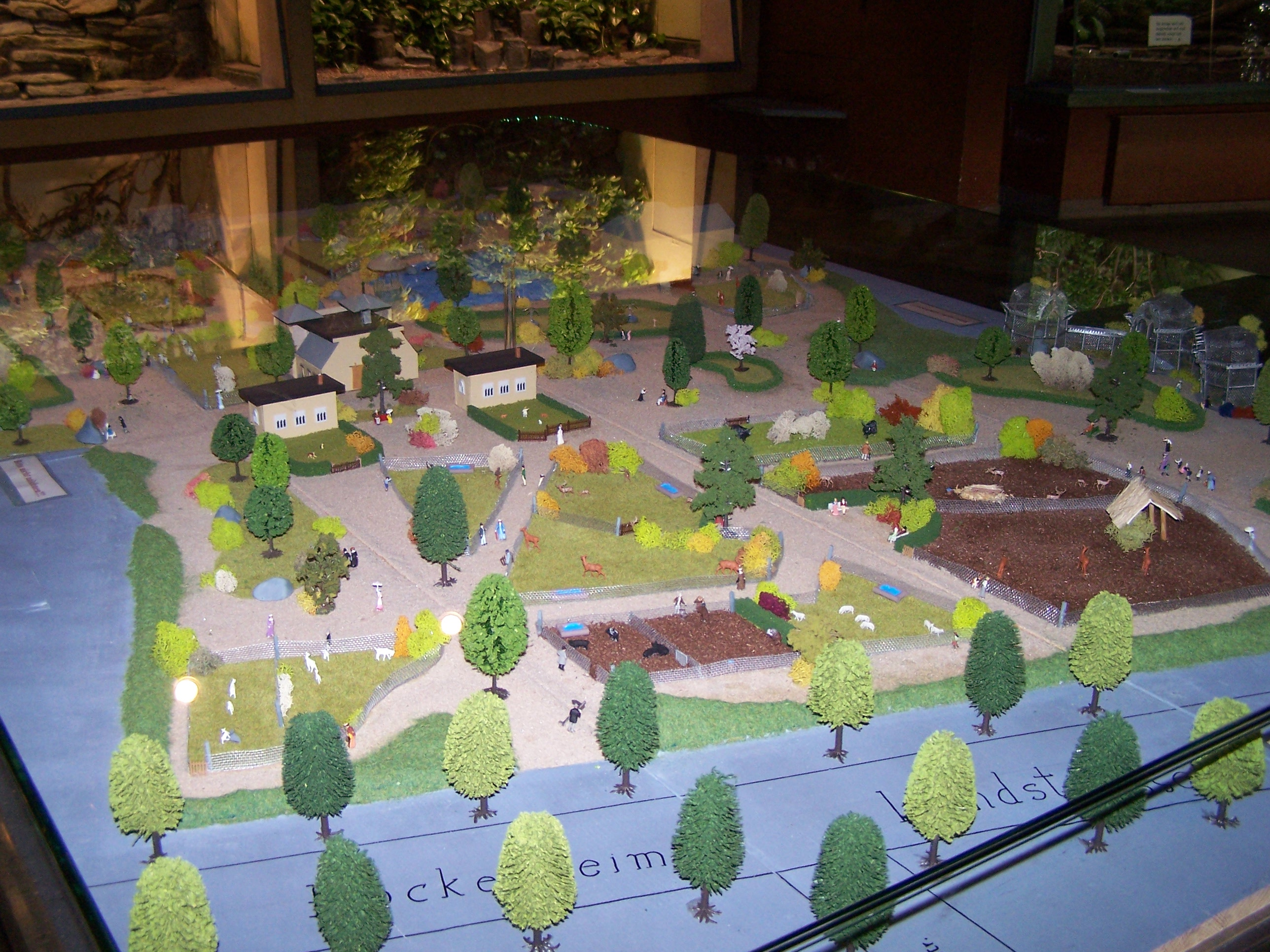 Zoo of Frankfurt on Main, Model of the Zoo in Frankfurt in der Bockenheimer Landstrasse in the condition of 1860